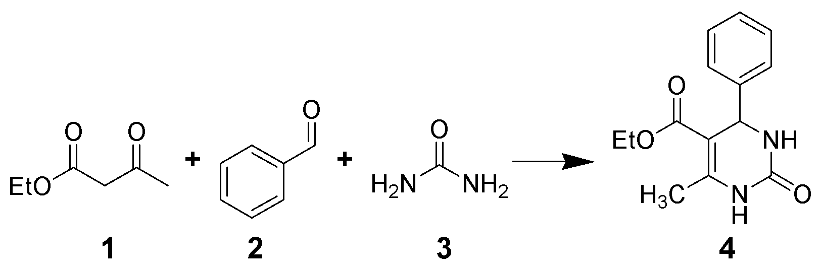 Description: Reaction scheme of the Biginelli reaction. Author, date of creation: selfmade by ~K, 21 September 2005. Source: - Copyright: Public domain. (PD) Comments: high-resolution b/w PNG; ChemDraw / The GIMP.